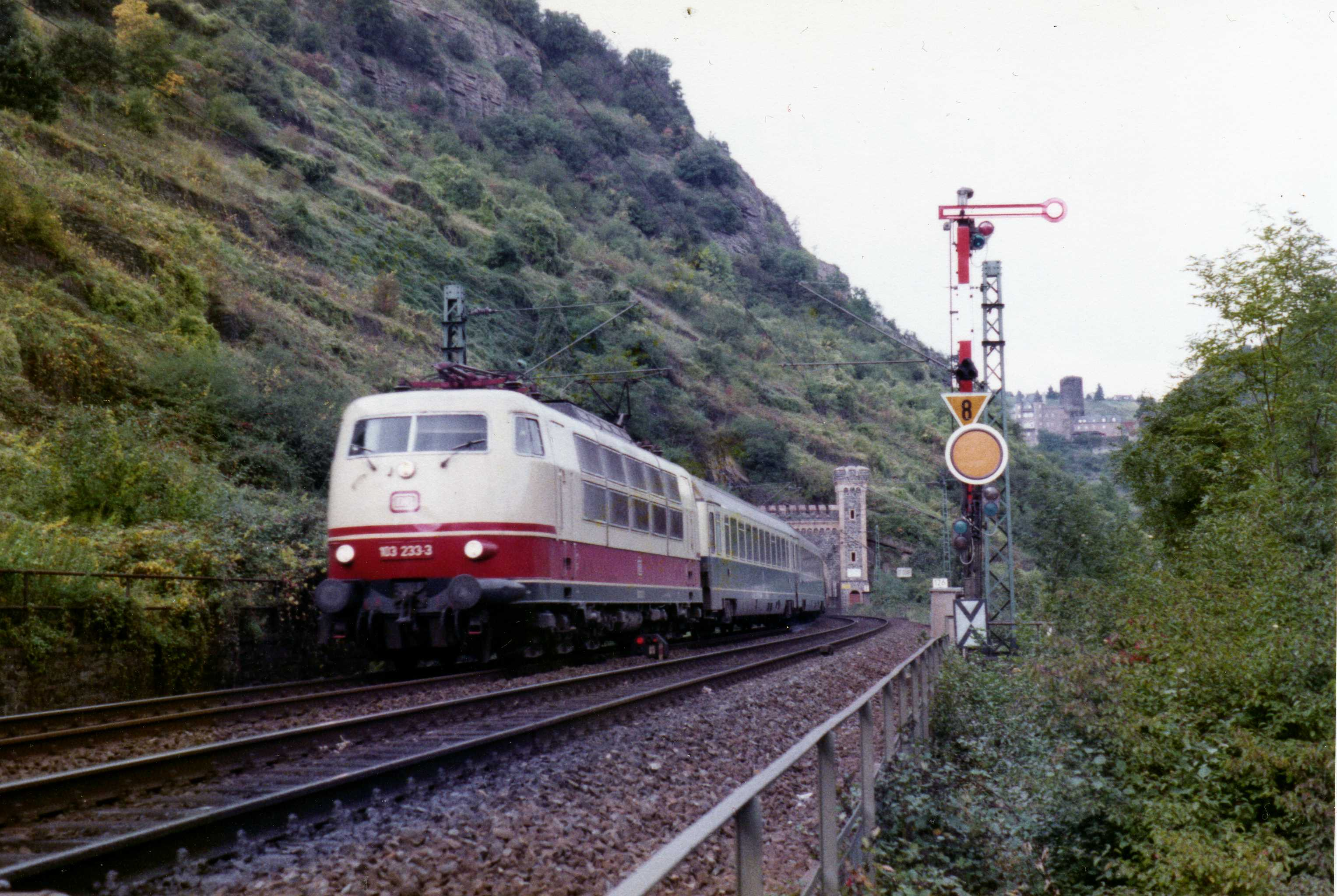 DB class 103 leaves Bank Tunnel (Rhine valley, opposite Loreley rock) with Intercity train 515 "Senator" from Hamburg to Munich, october 1984